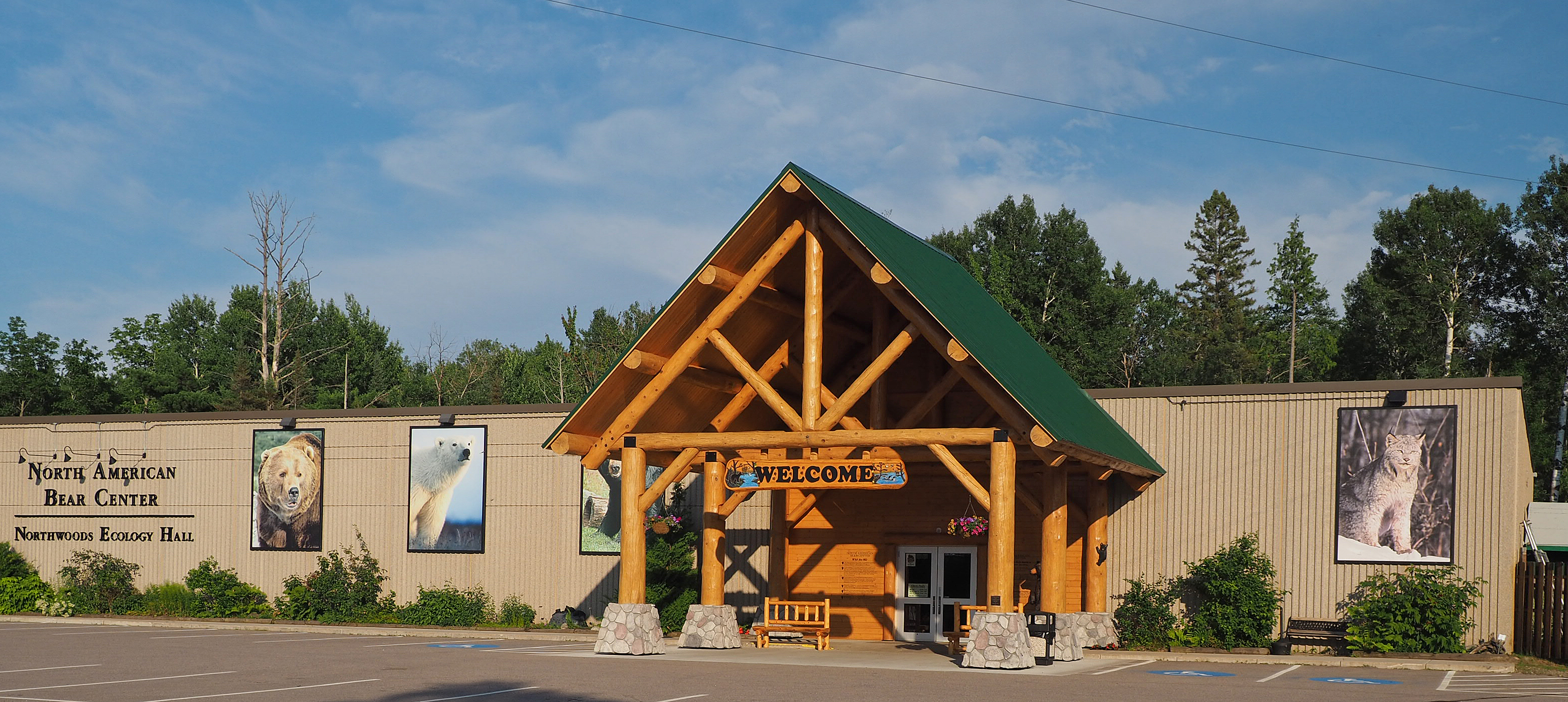 Northwoods Ecology Hall, North American Bear Center, 1926 Highway 169, Ely, Minnesota, USA. Viewed from the west.